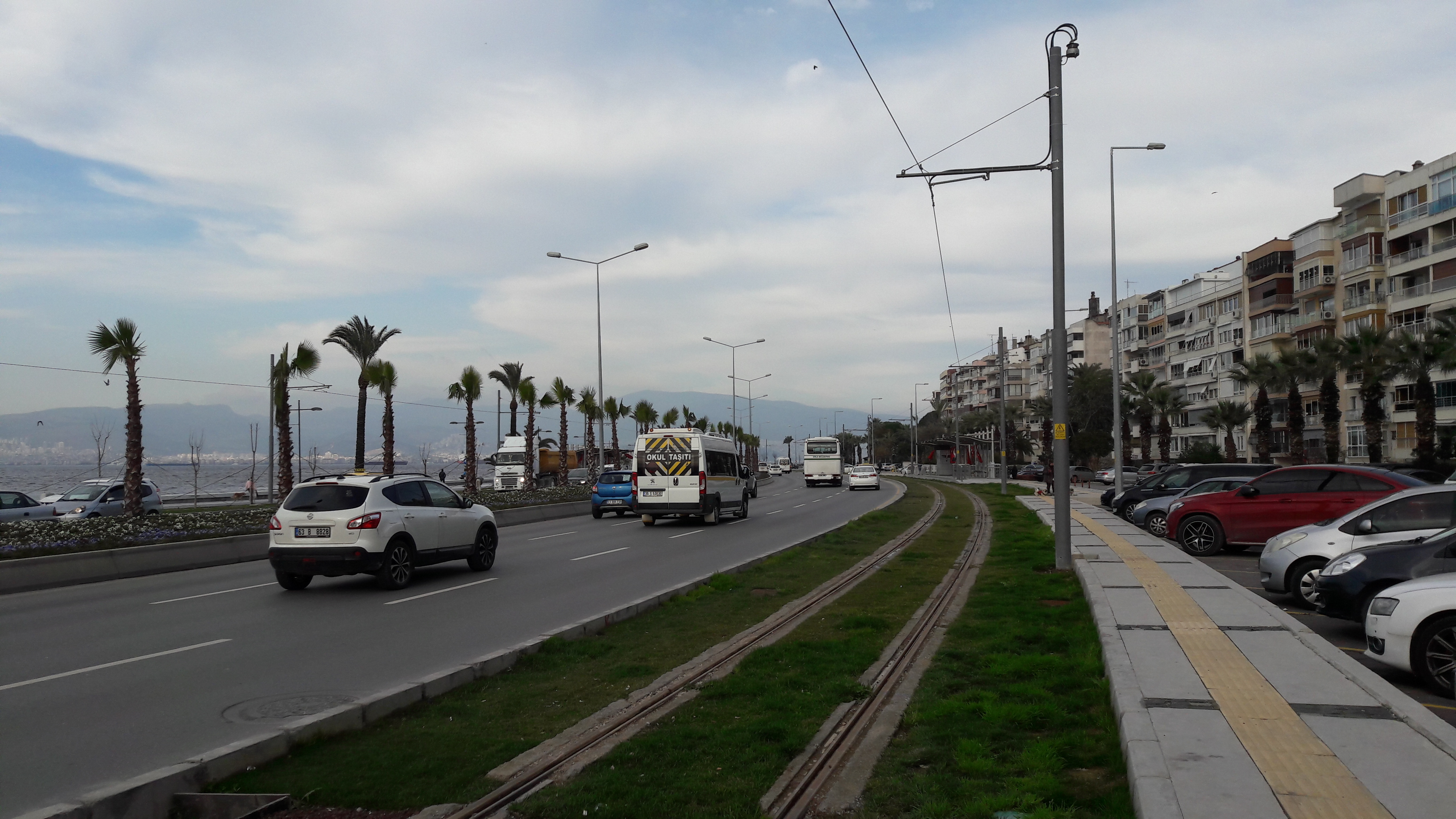 Mustafa Kemal Coastal Boulevard